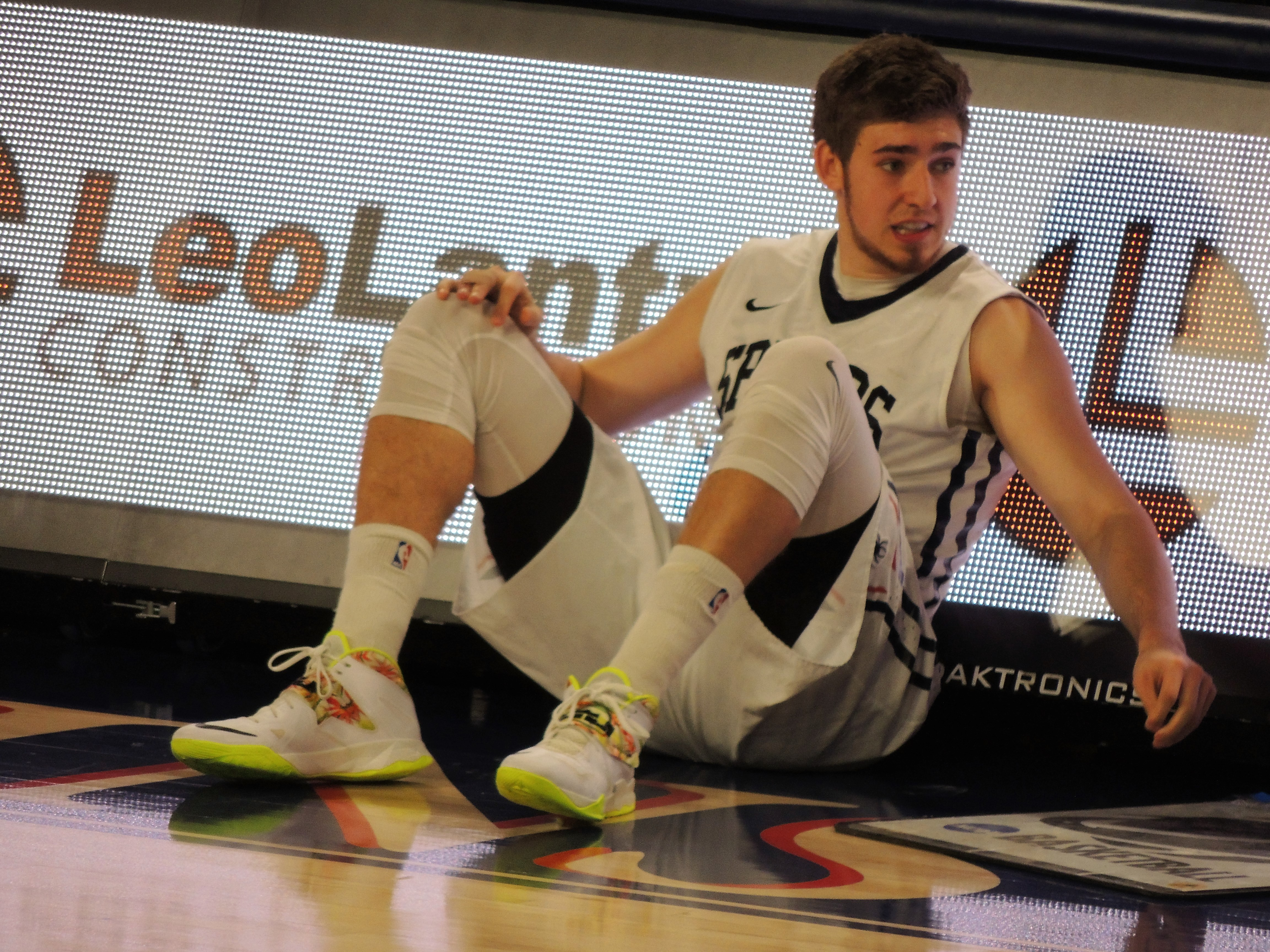 University of Richmond basketball player TJ Cline prepares to check into a 2015 game